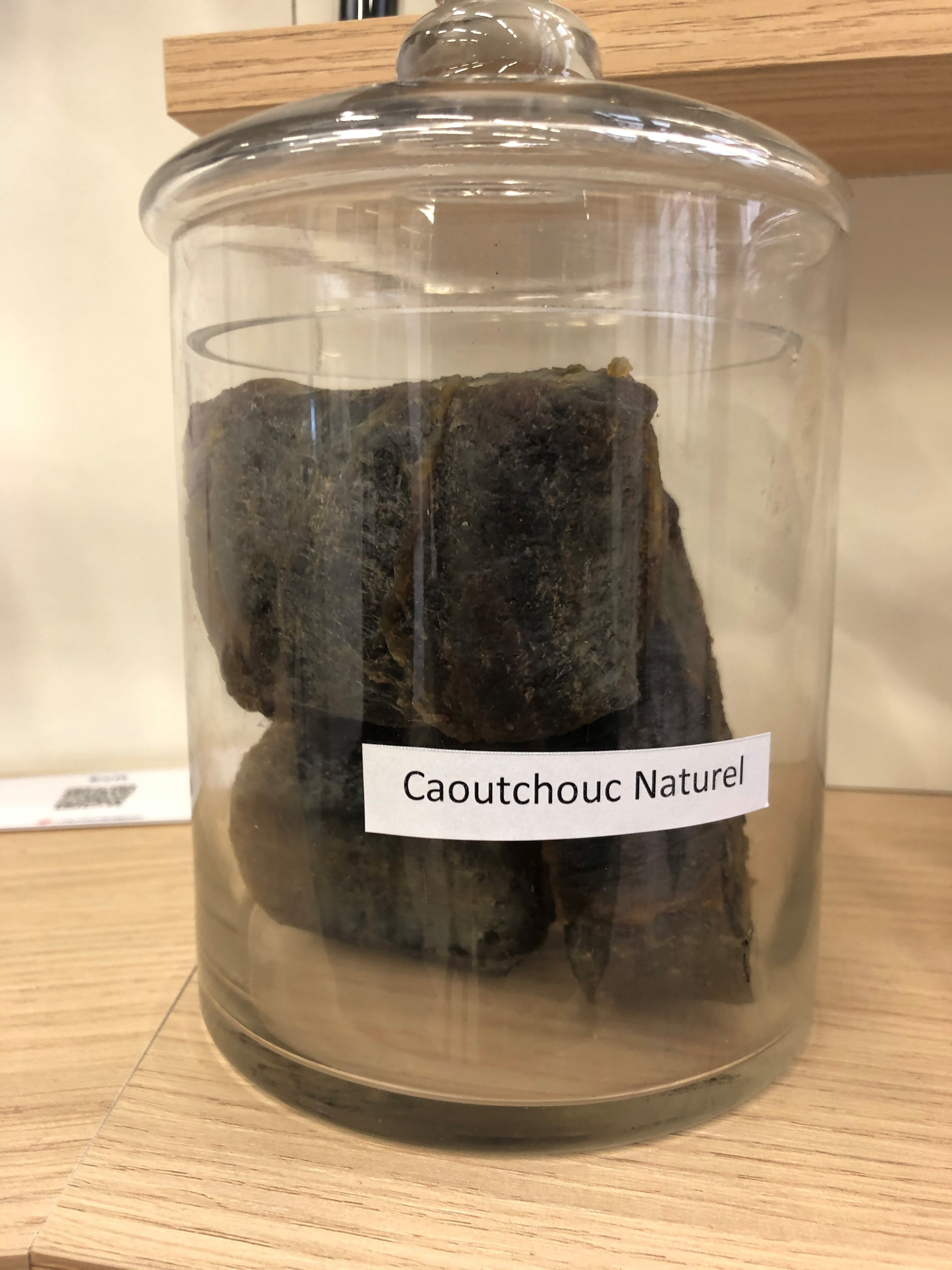 photo of natural rubber in a glass jar